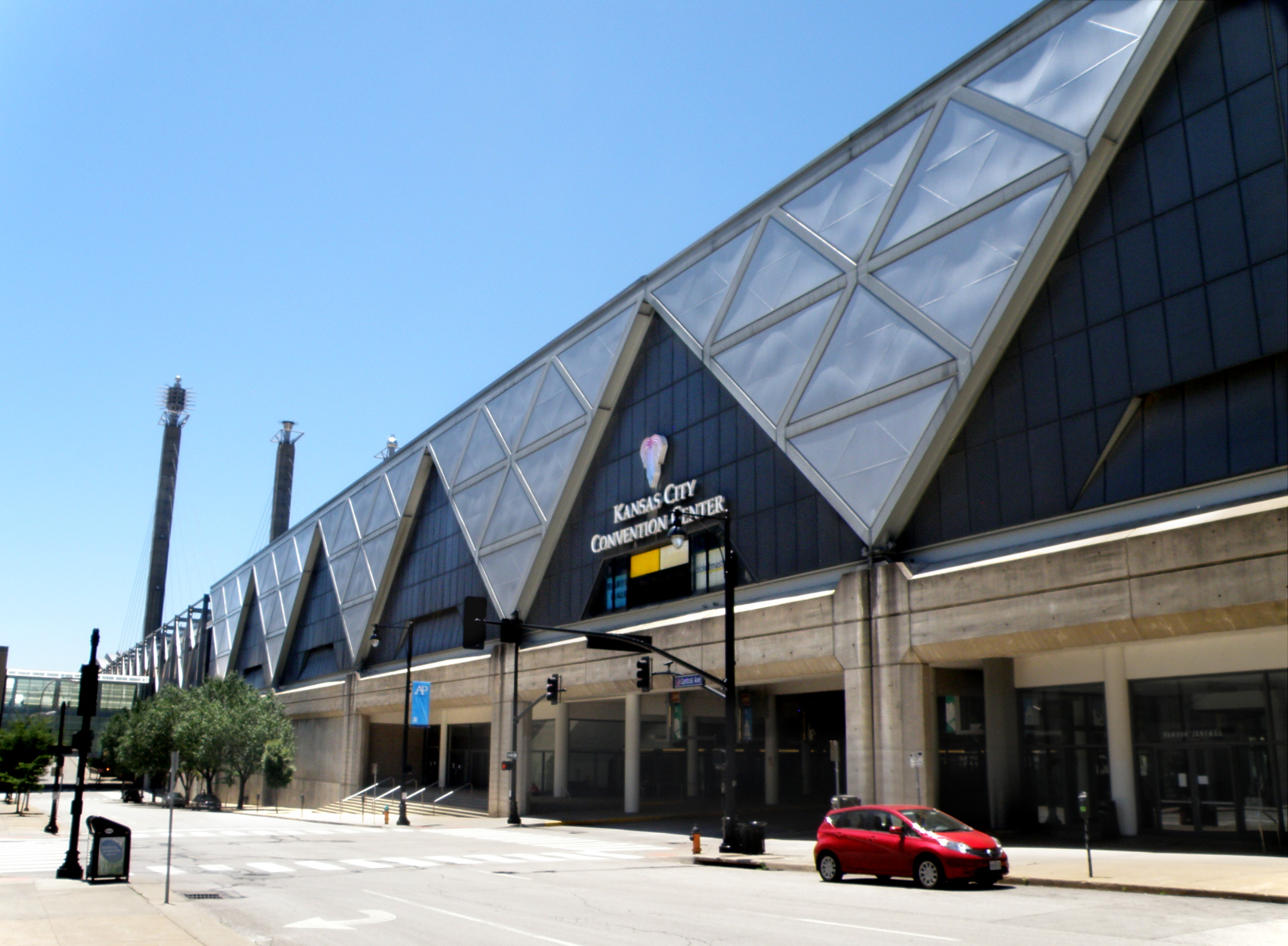 Kansas City Convention Center, West 13th Street - Kansas City, Missouri, USA